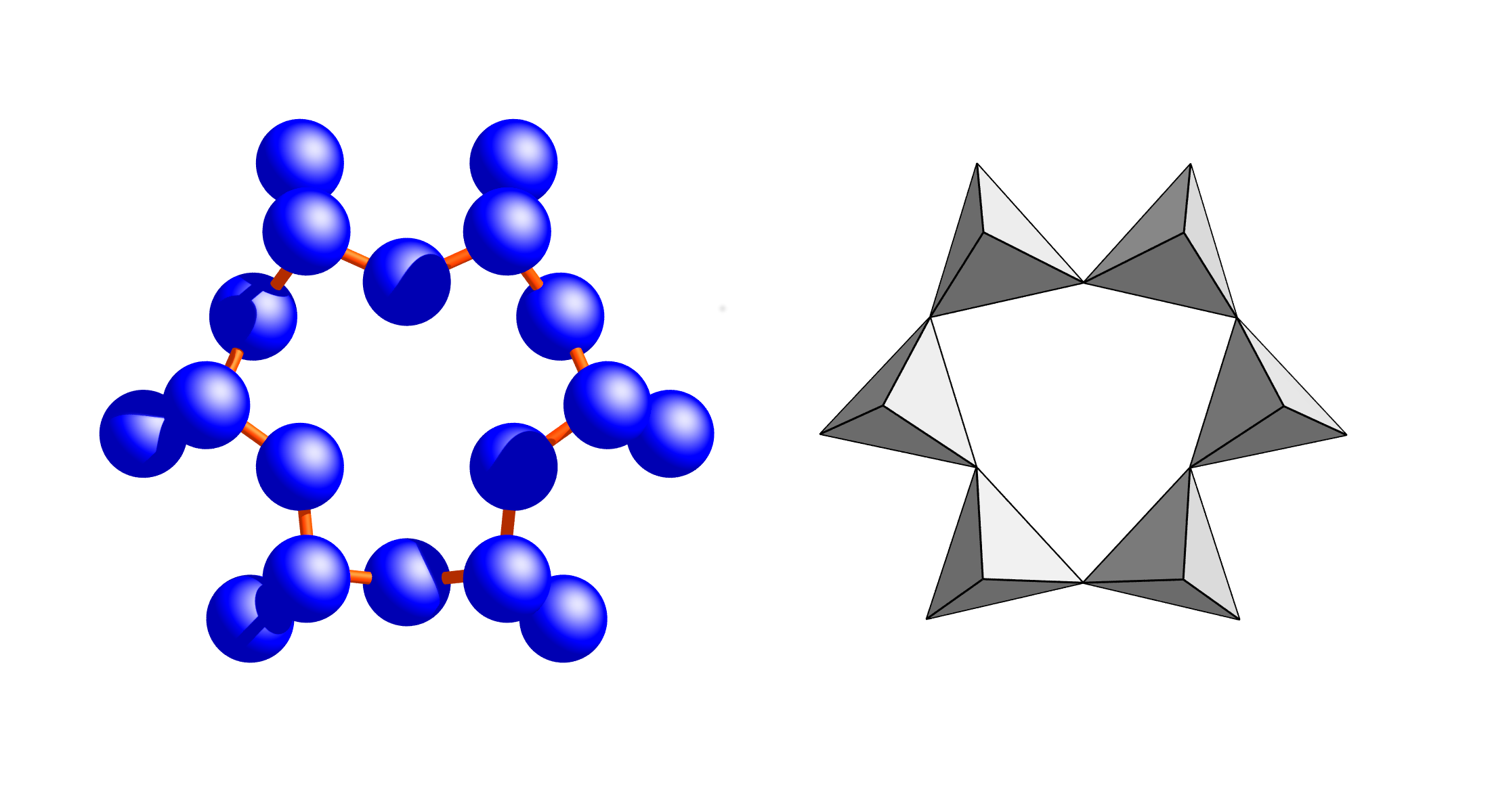 Silicate ring of Dravite Data from: Hamburger G. E., Buerger M. J. (1948): The structure of tourmaline, American Mineralogist 33, pp. 532-540 Calculation of image data: Larry W. Finger, Martin Kroeker, and Brian H. Toby, DRAWxtl, an open-source computer program to produce crystal-structure drawings, J. Applied Crystallography V40, pp. 188-192, 2007 Rendering: POVRAY